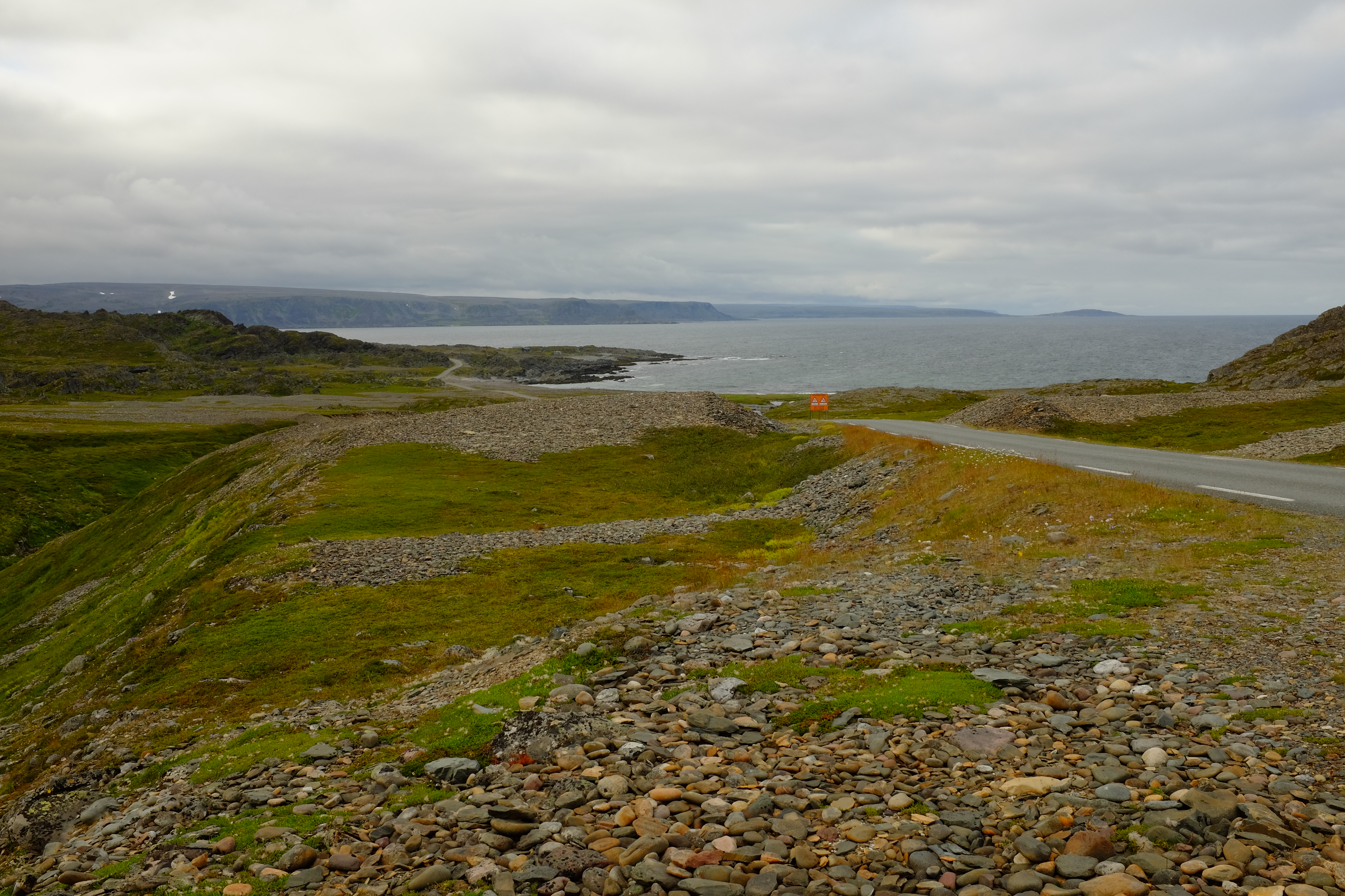 Persfjorden is a fjord on the east side of the Varanger Peninsula in Vardø municipality in Finnmark. The fjord has an inlet between Seglodden in the west and Prestnæringen in the east, and extends four kilometers southwest to Persfjord at the end of the fjord.